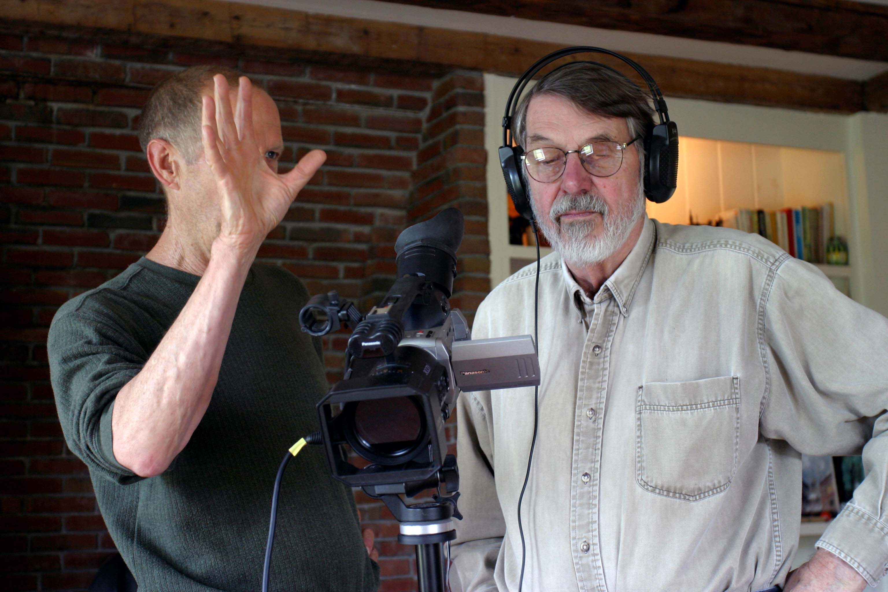 Taken during the taping of Add-Verse in Maine 2004, by Gloria Graham.